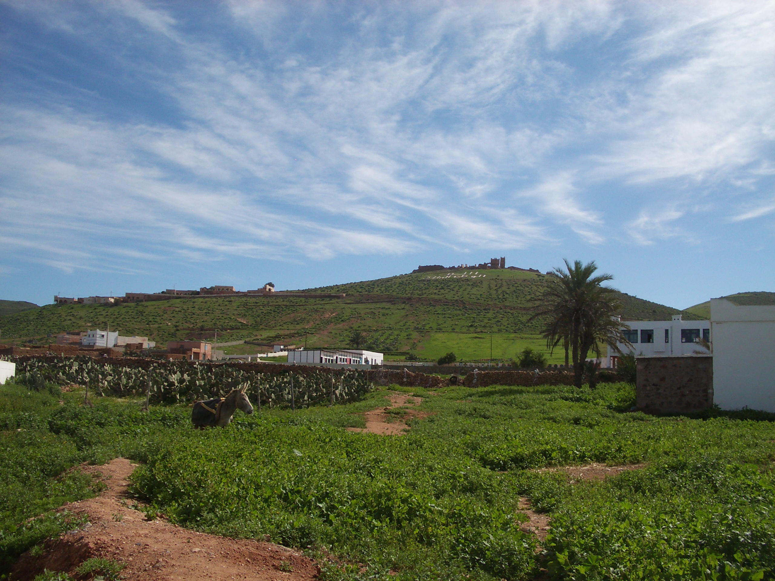 Mirleft, old military place